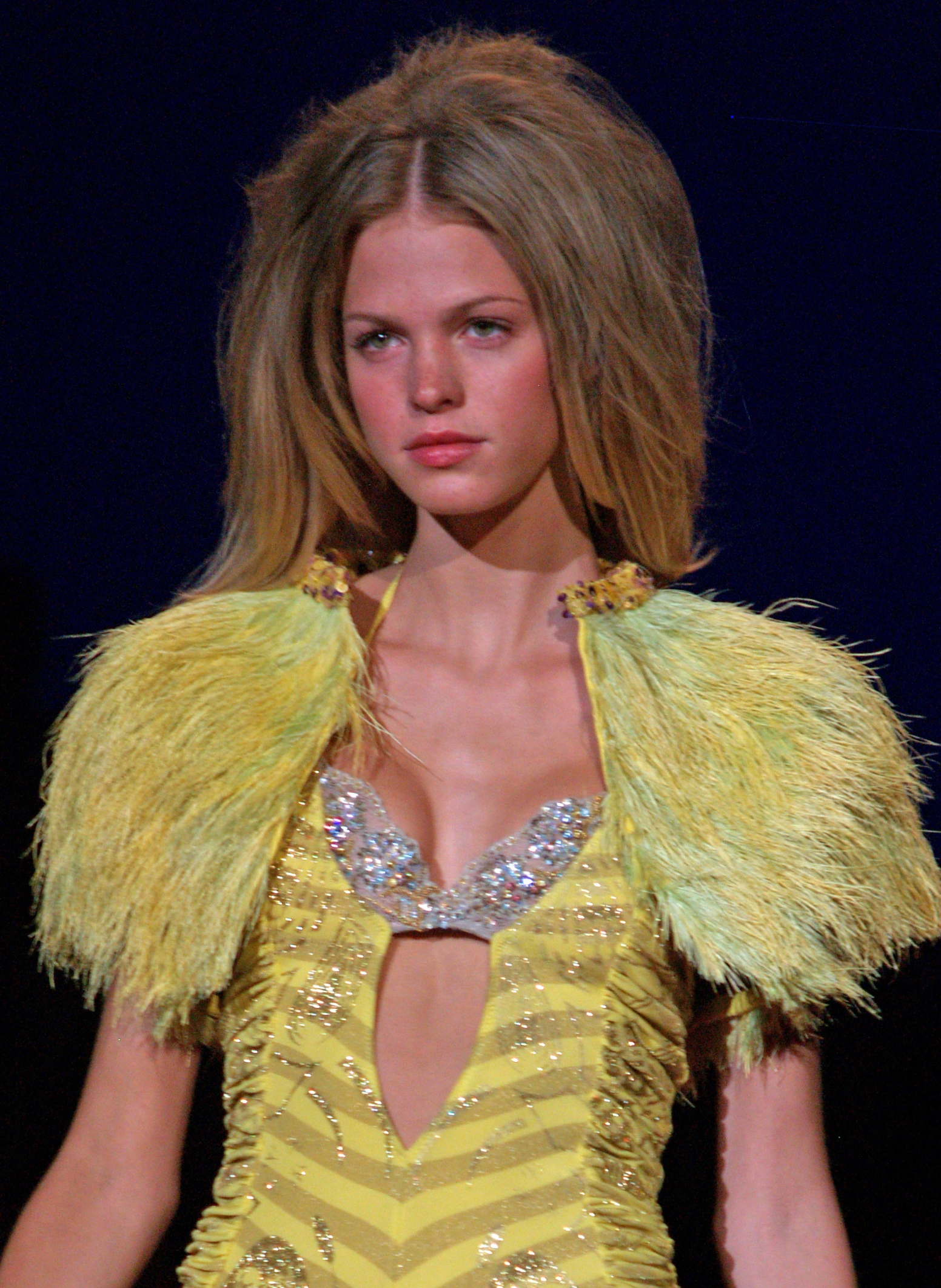 Model Erin Heatherton on the Custo Barcelona runway during Spring 2009 New York Fashion Week